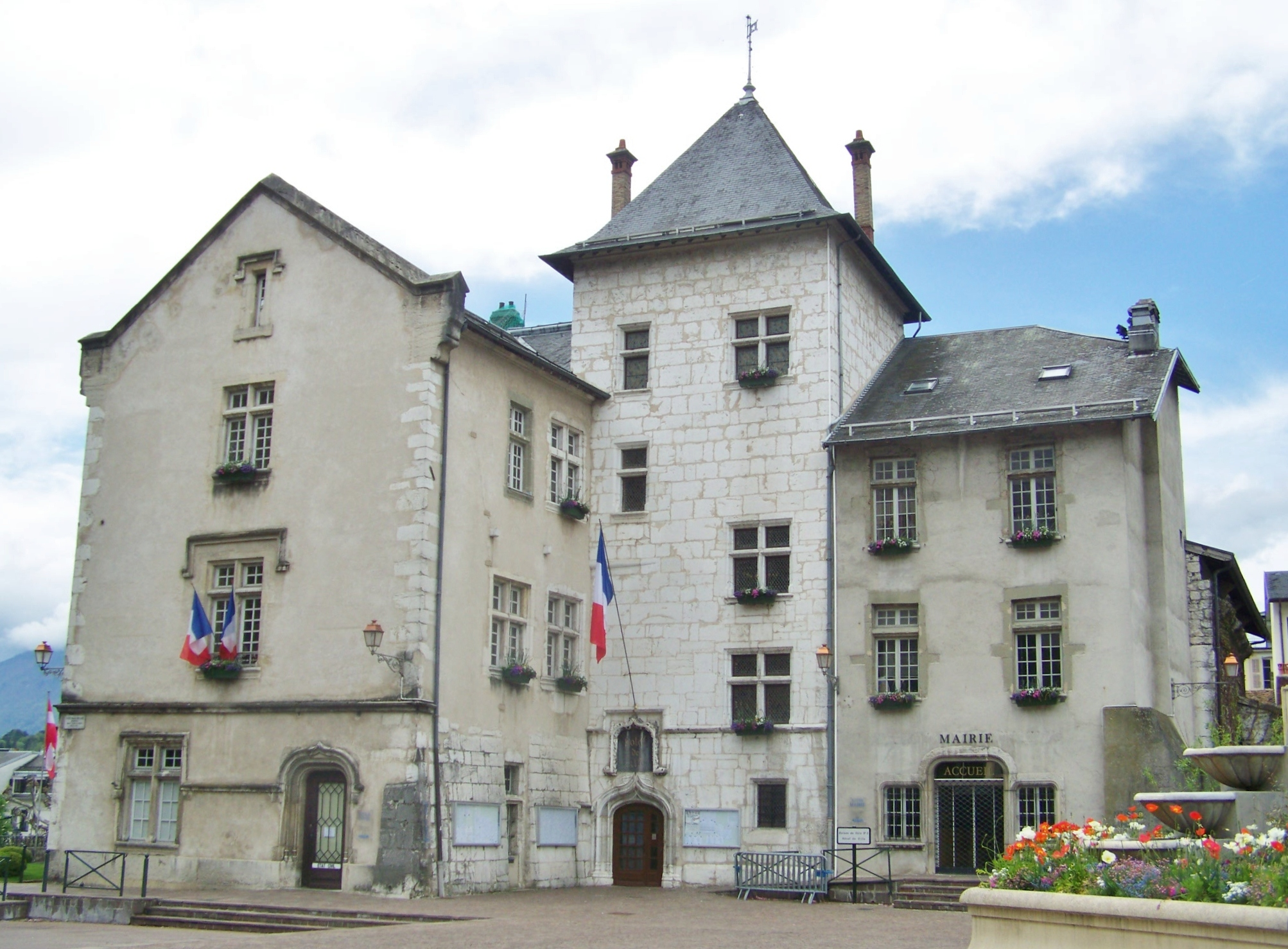 Sight of Aix-les-Bains city hall, in Savoie, France.